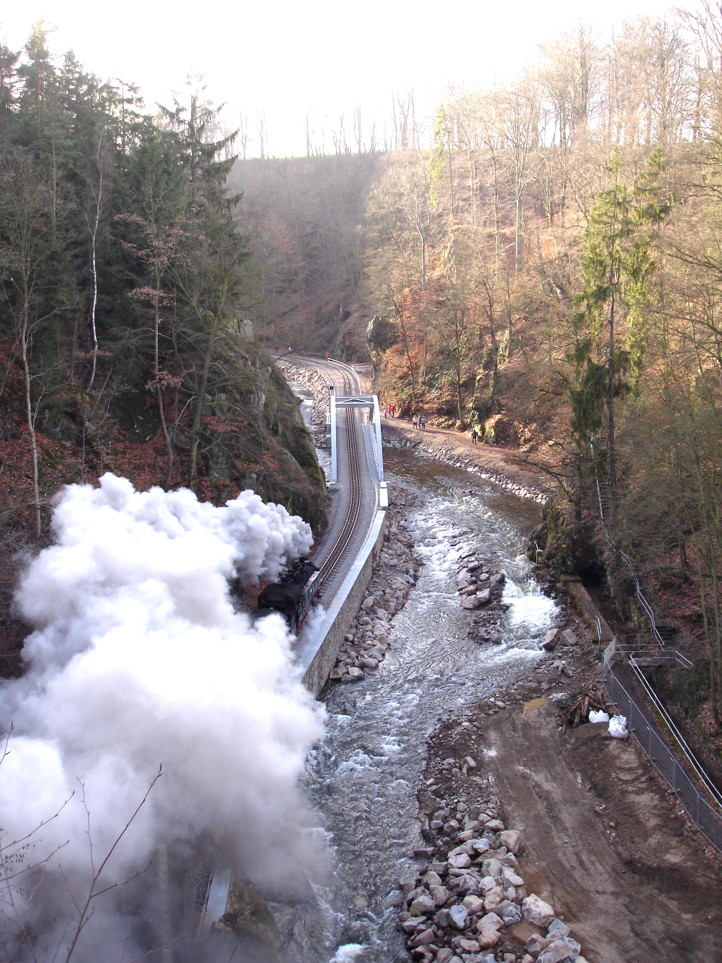 train of Weißeritztalbahn in Rabenau, Saxony, Germany